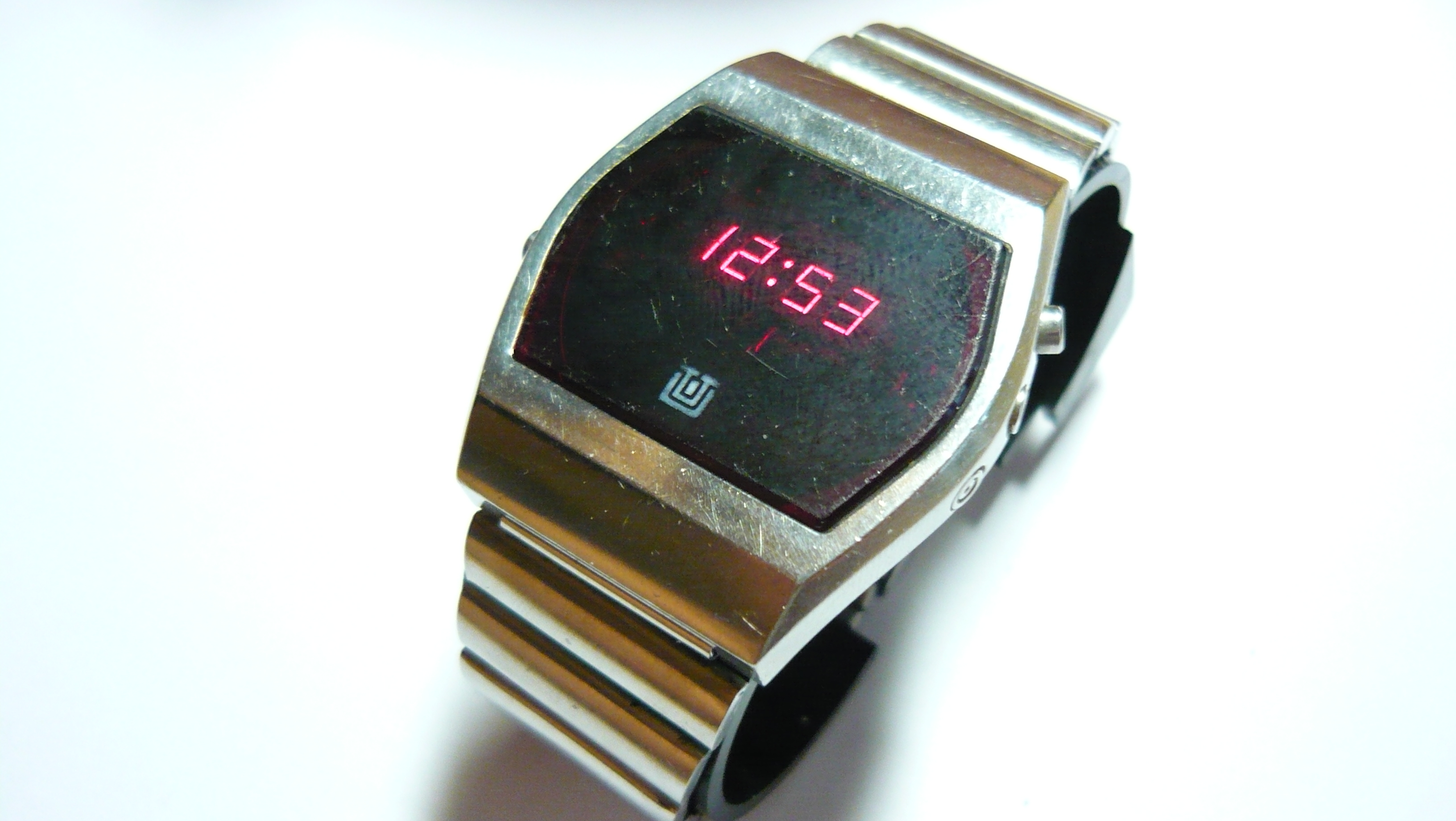 Unitra Warel LED Watch